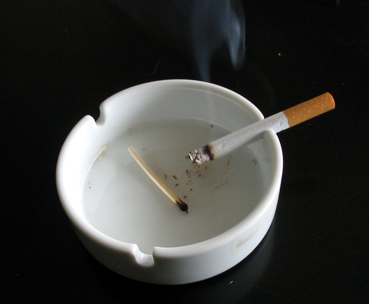 a lit cigarette in an ashtray